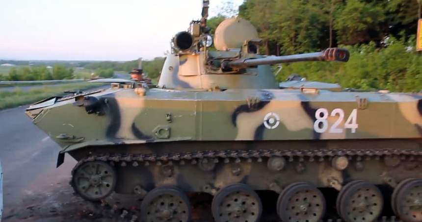 Ukrainian roadblock between Kramatorsk and Sloviansk, May 11, 2014.